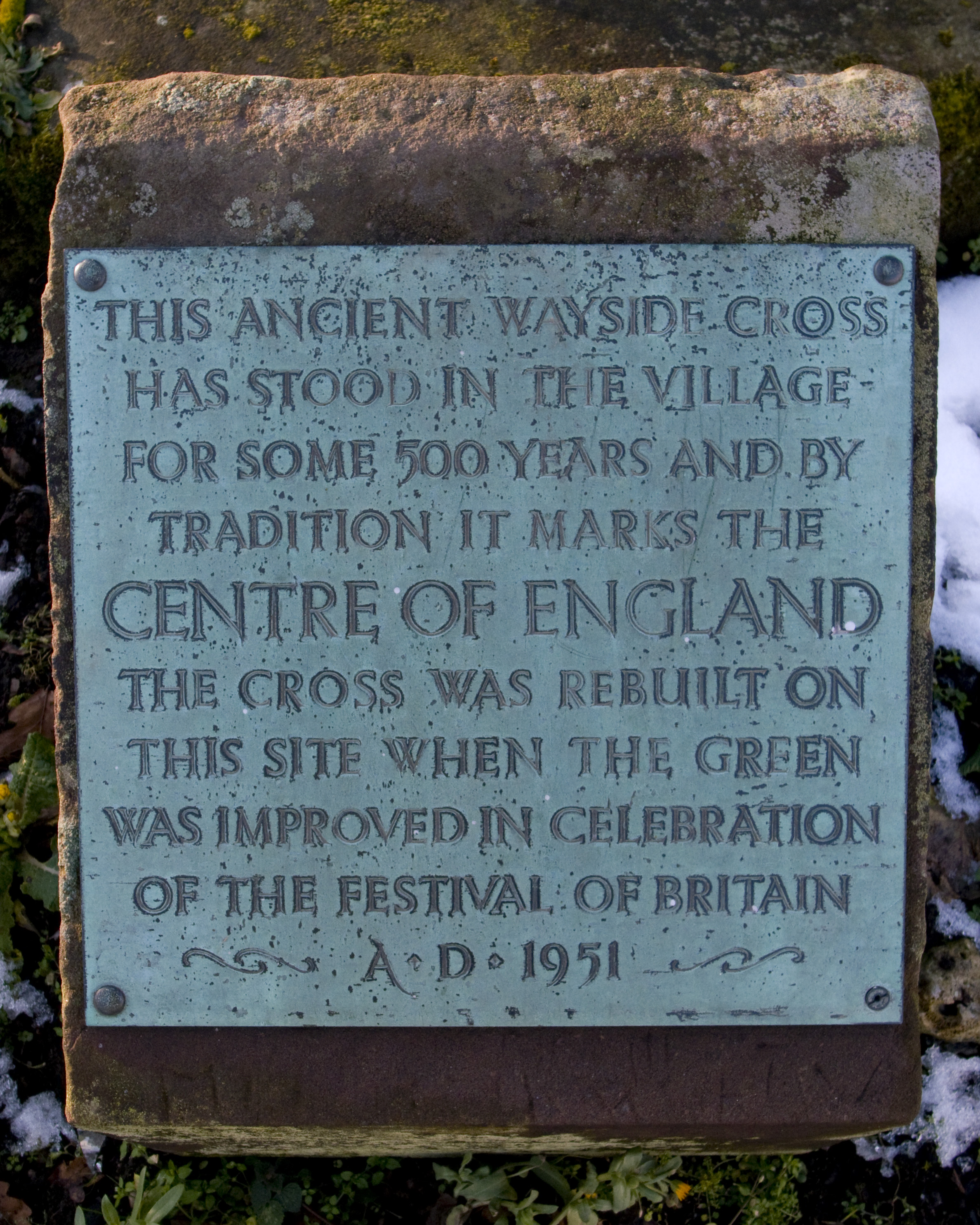 Plaque on the Medieval stone cross on the village green at Meriden, West Midlands (formerly Warwickshire). Meriden is traditionally held to be the centre of England.